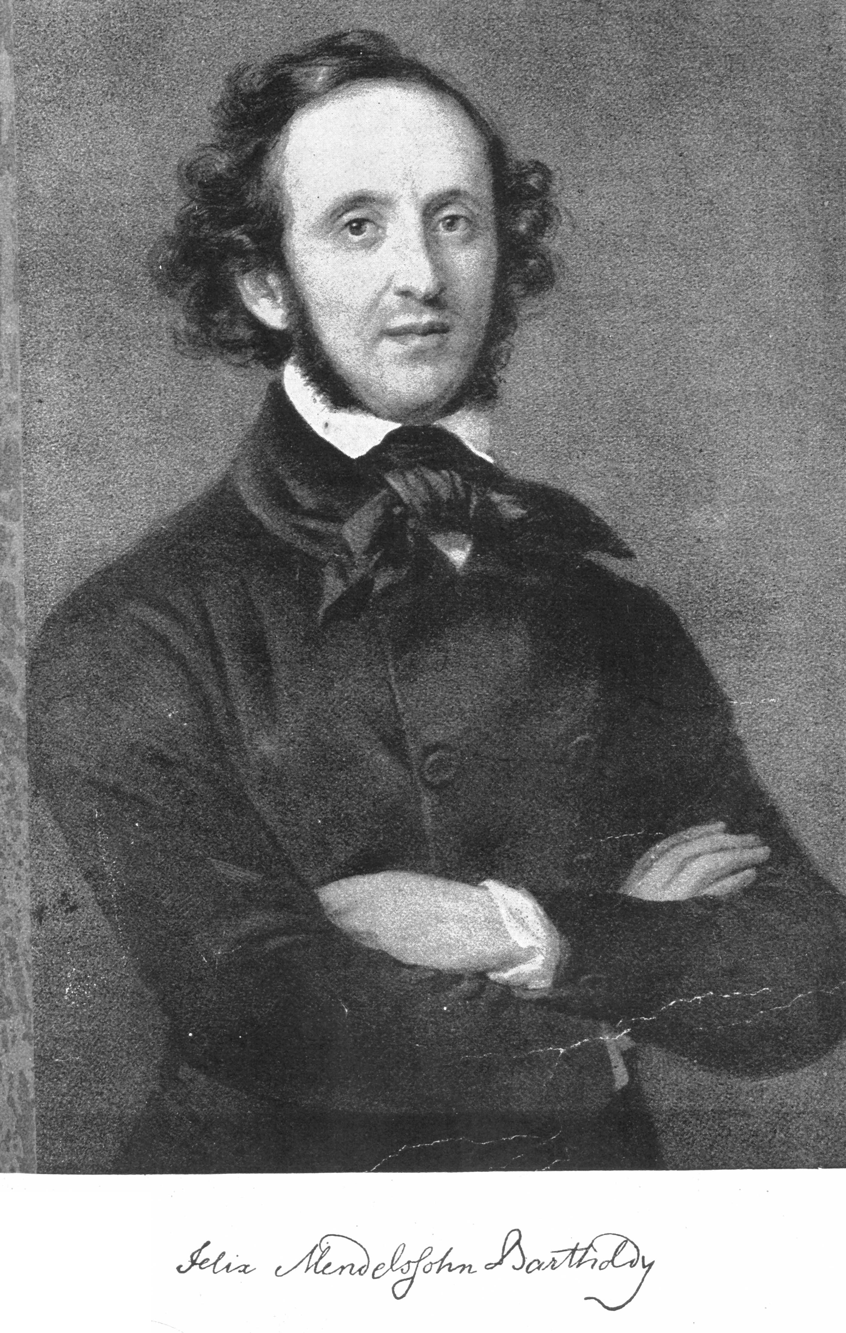 Felix Mendelssohn Bartholdy